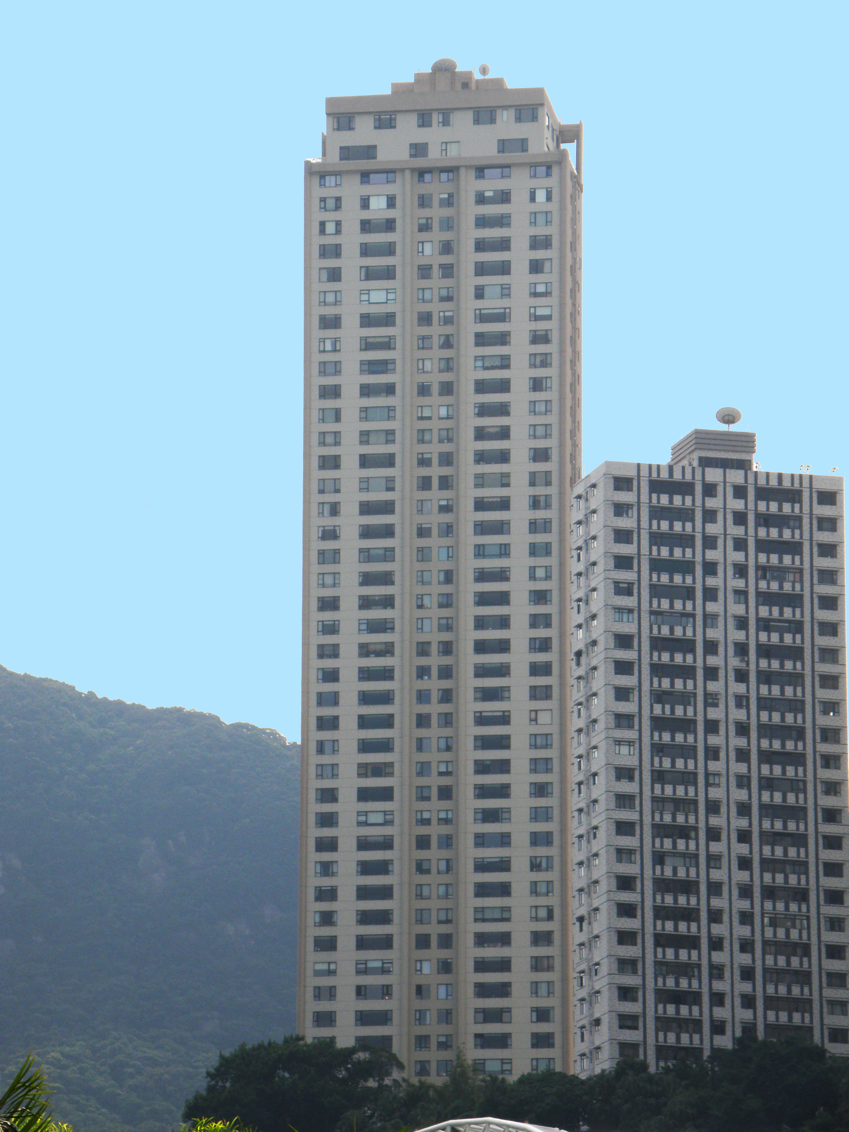 Broadview Villa in Happy Valley, Hong Kong.